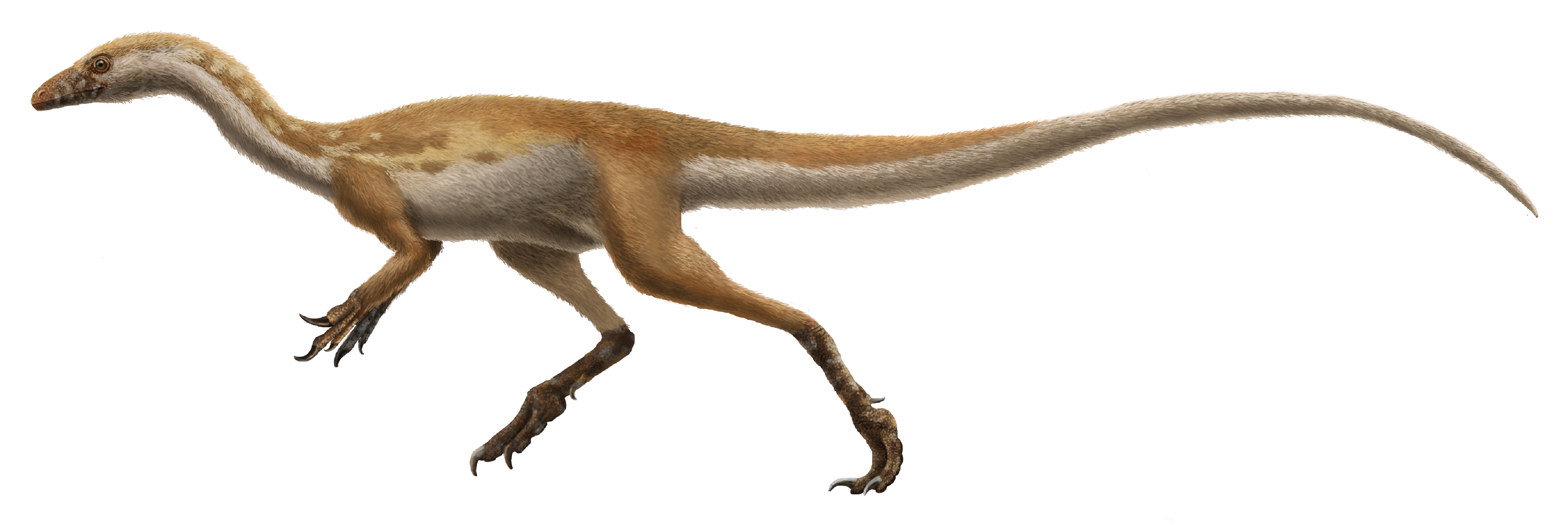 A 3 metres long coelurosaurian dinosaur from Argentina